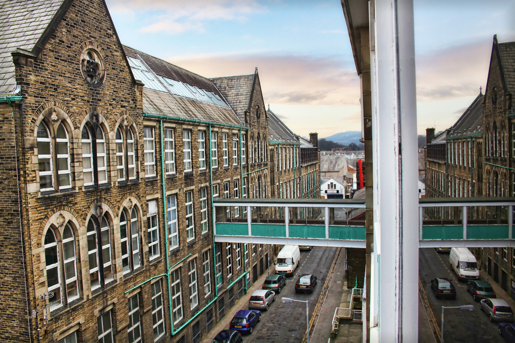 These old buildings once belonged to Keighley College, but the institution recently moved to a more modern property so the structure on the left is demolished, and the right is scheduled to be demolished. Designed by Lockwood and Mawson - architects of many of the grandest structures in Bradford - the building on the left of this photo originally housed the Mechanics Institute and is an important component of Lord Street. It dates variously from 1887, 1914 and 1932 and is constructed of dressed sandstone with a blue slate roof. Keighley, whilst it has more than a fair share of concrete, retains a lot of northern heritage from a tapestry of beautiful old Victorian buildings which are liberally scattered throughout the town centre. This photograph can be found in its original resolution online in this set of images.